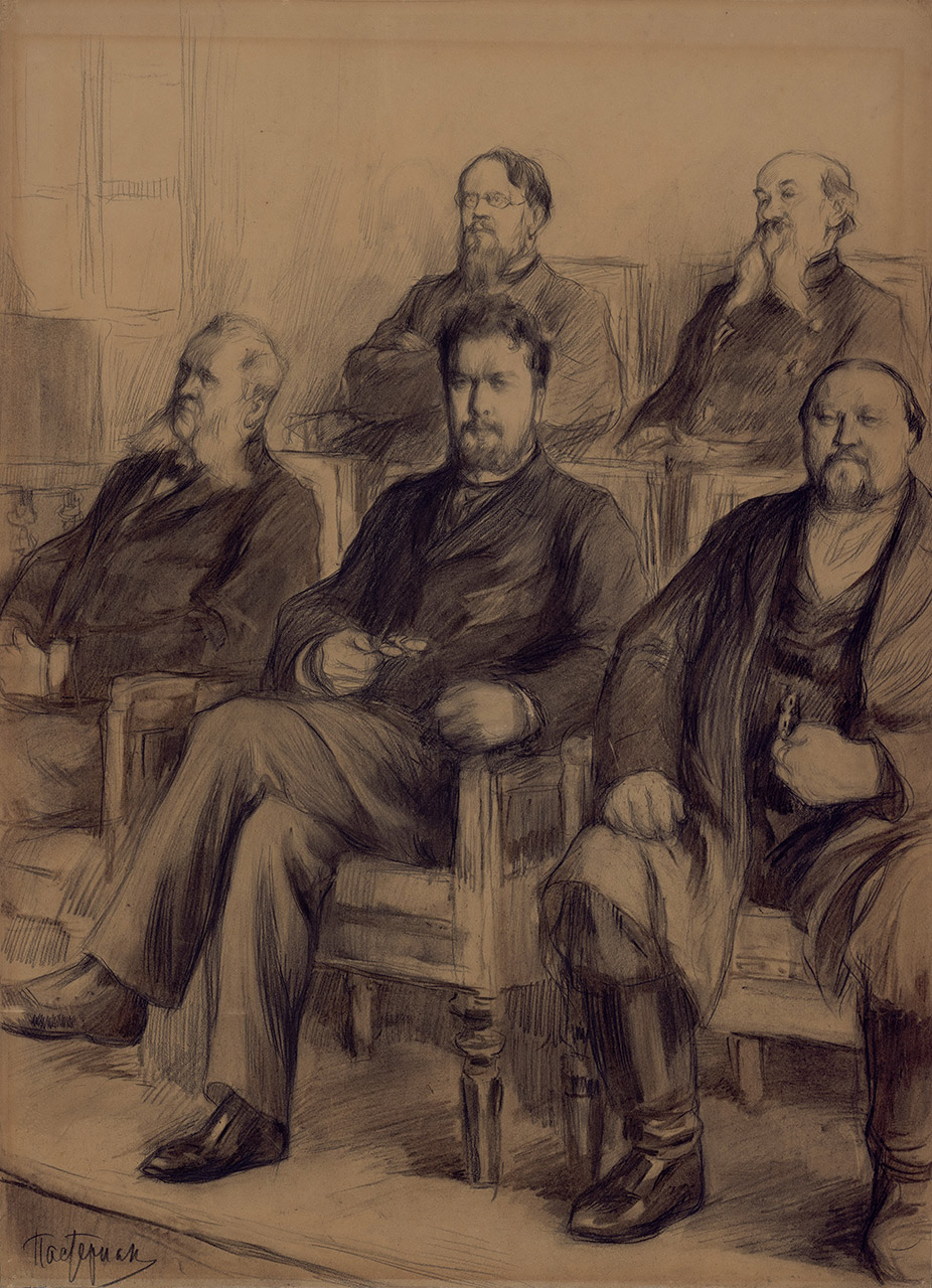 Pre-1910 illustration by Leonid Pasternak of Leo Tolstoy's wikisource:The Awakening: The Resurrection